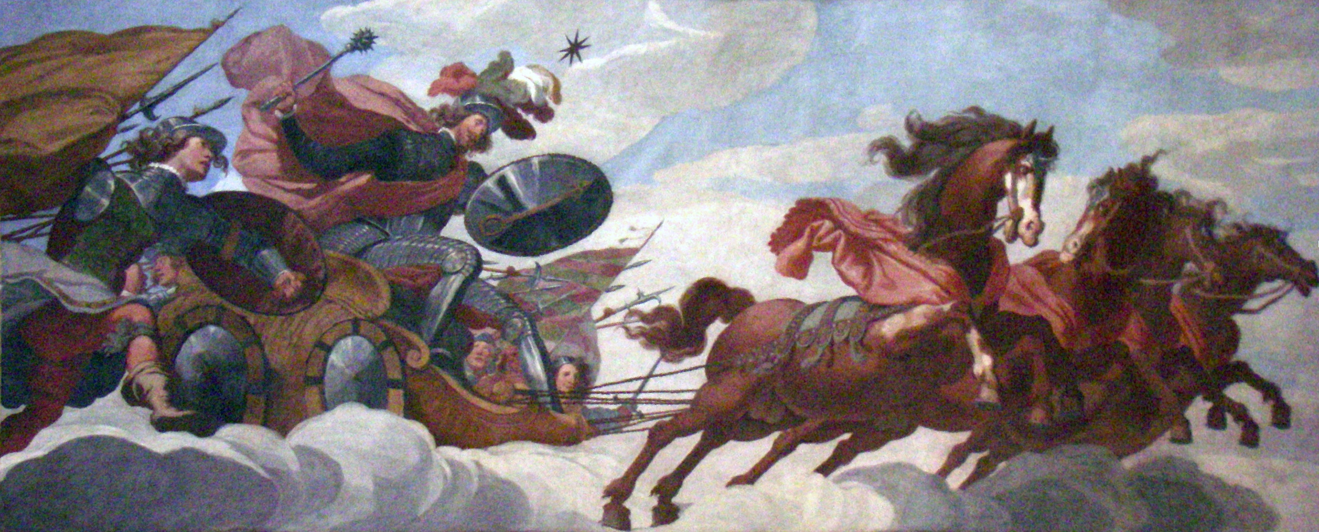 Ceiling decoration depicting Albrecht von Wallenstein as Mars, the god of war, riding the sky in a chariot pulled by four horses (a quadriga). Artist: Baccio del Bianco. The ceiling decoration is in the Main Hall of the Wallenstein Palace in Prague, currently the home of the Czech Senate.